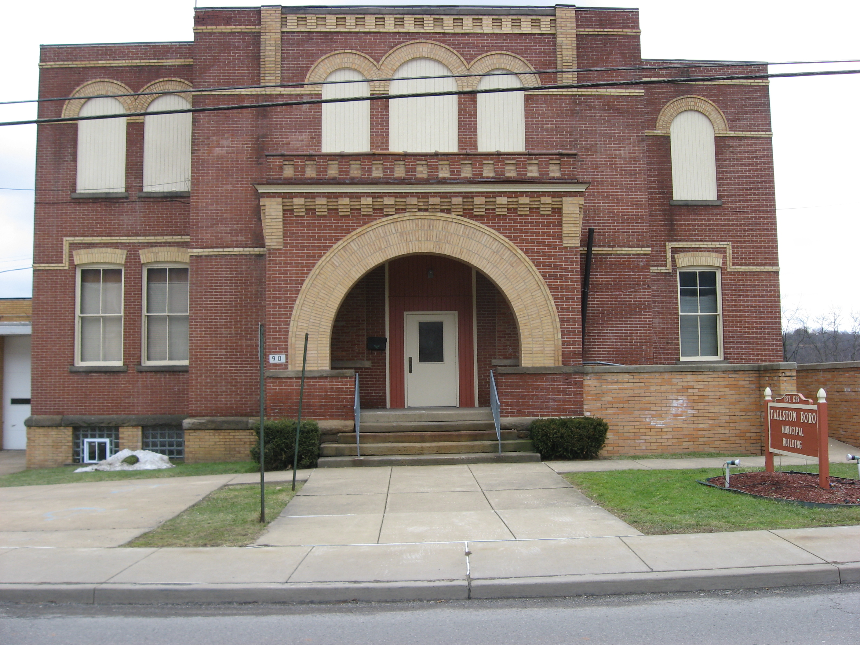 Streetside view of the municipal building of Fallston, a borough in Beaver County, Pennsylvania, United States. Building is located at 90 Beaver St. in northern Fallston.